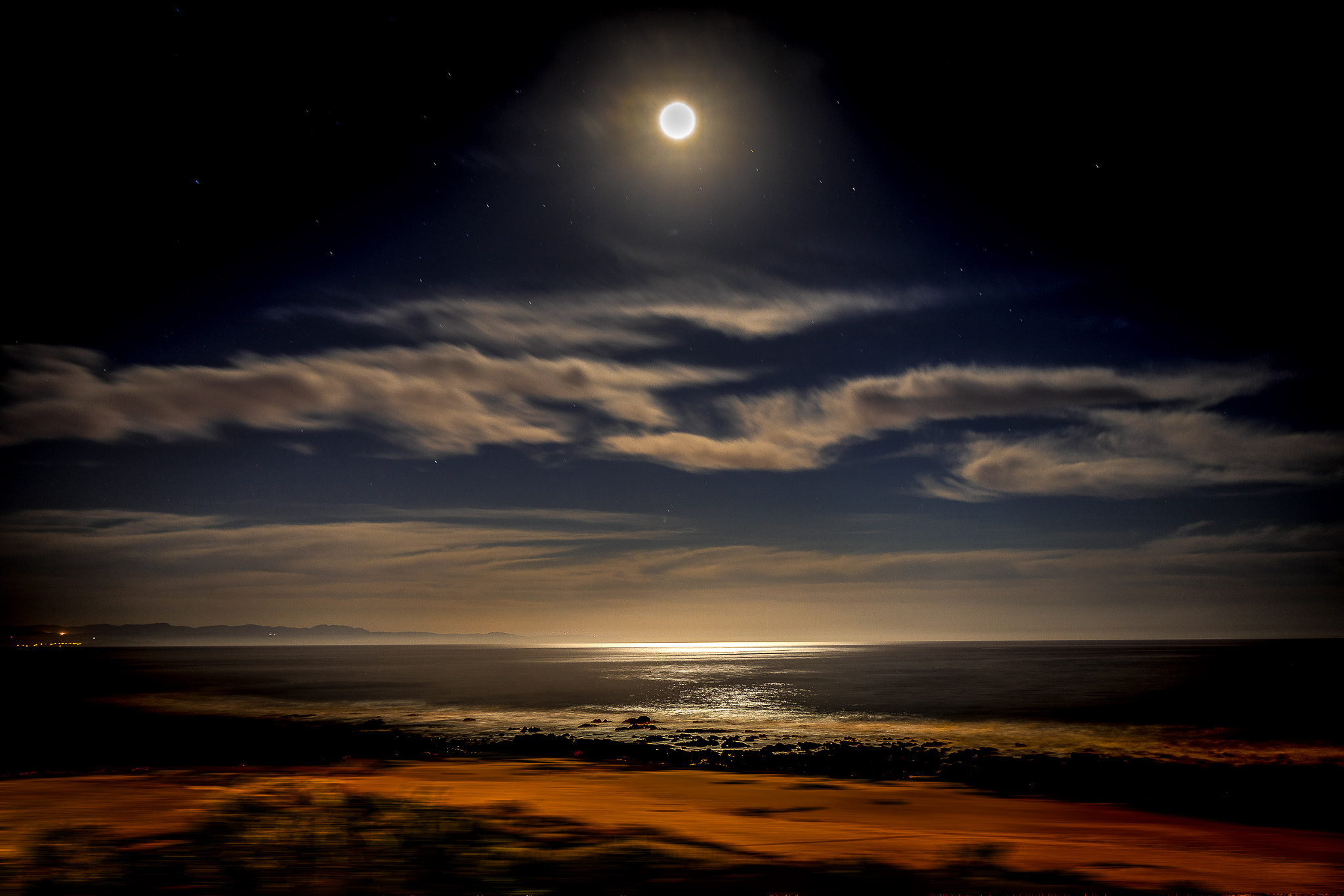 500px provided description: Nightshot at Jeffreys Bay in South Africa at the Coast. [#yellow ,#sky ,#landscape ,#sea ,#nature ,#beach ,#travel ,#blue ,#orange ,#moon ,#romantic ,#horizon ,#500px ,#sand ,#dark ,#seascape ,#blur ,#dark blue ,#dramatic ,#no people ,#horizont ,#nightshot ,#blau ,#instagram ,#photooftheday ,#bestoftheday ,#picoftheday ,#Photography ,#Night ,#Bay ,#Landschaft ,#Coast ,#Weber ,#Wolfgang ,#Jeffrey ,#Wolfgang Weber ,#bestphotooftheday ,#bestpicoftheday ,#500pxrtg ,#phowoto ,#theweekofeyeem ,#Jeffrey`s Bay]